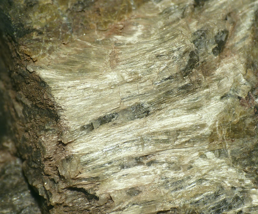 Carpholite Locality: Biesenrode, Wippra Metamorphic Zone, Harz, Saxony-Anhalt, Germany Green carpholite. Field of view 3 cm.